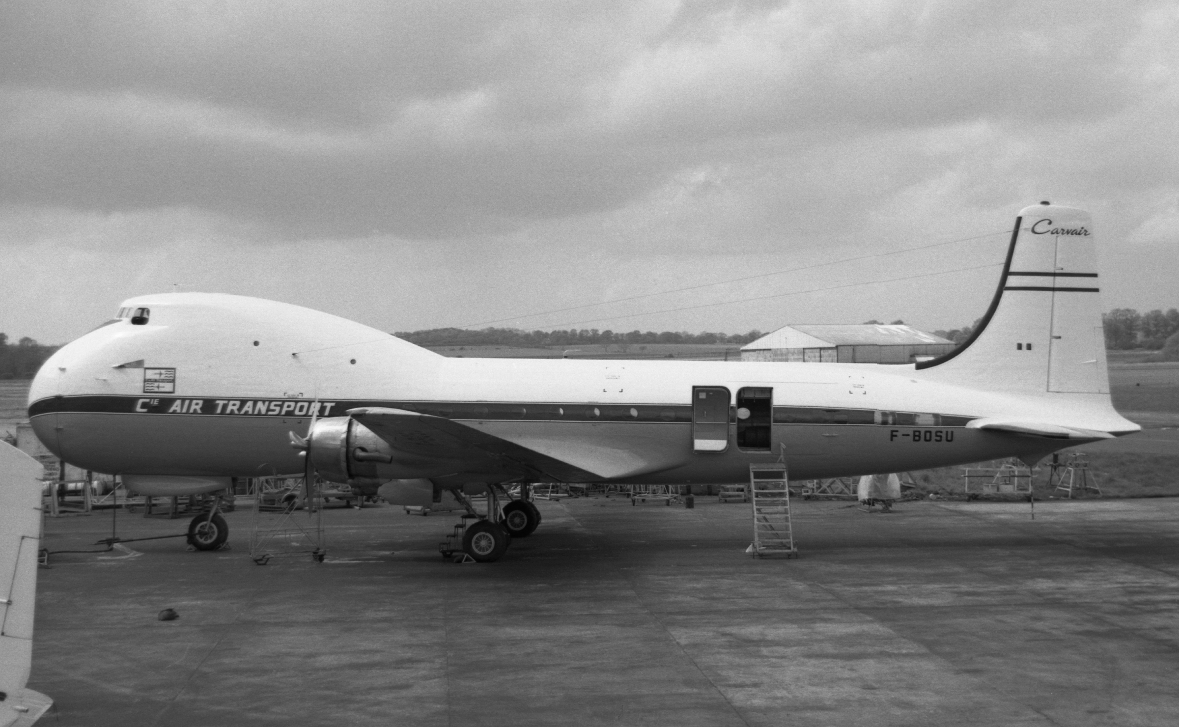 Originally going to BUAF as G-ATRV after conversion from C-54E OD-ADW, just over a year later it was sold to Compagnie Air Transport as F-BOSU and repainted in their colours at Southend, where this photo was taken on 6 May 1967, shortly before delivery. After just five years' service, she was scrapped at Nimes-Garons in Nov 1972. Photo: Richard John Goring (Transportraits)